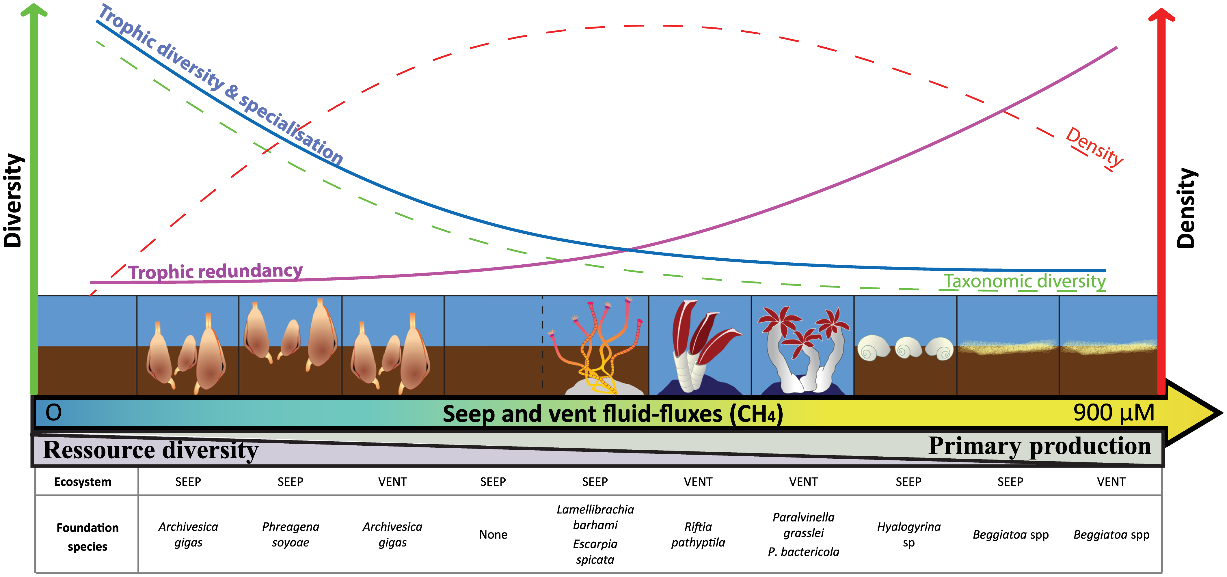 Conceptual diagram of faunal community structure and food-web patterns along fluid-flux gradients within Guaymas seep and vent ecosystems. Adapted from: Bernardino AF, Levin LA, Thurber AR and Smith CR (2012). "Comparative Composition, Diversity and Trophic Ecology of Sediment Macrofauna at Vents, Seeps and Organic Falls". PLoS ONE, 7(4): e33515. pmid:22496753. and modified from: Portail M, Olu K, Escobar-Briones E, Caprais JC, Menot L, Waeles M, et al. (2015). "Comparative study of vent and seep macrofaunal communities in the Guaymas Basin". Biogeosciences. 12(18): 5455–79.